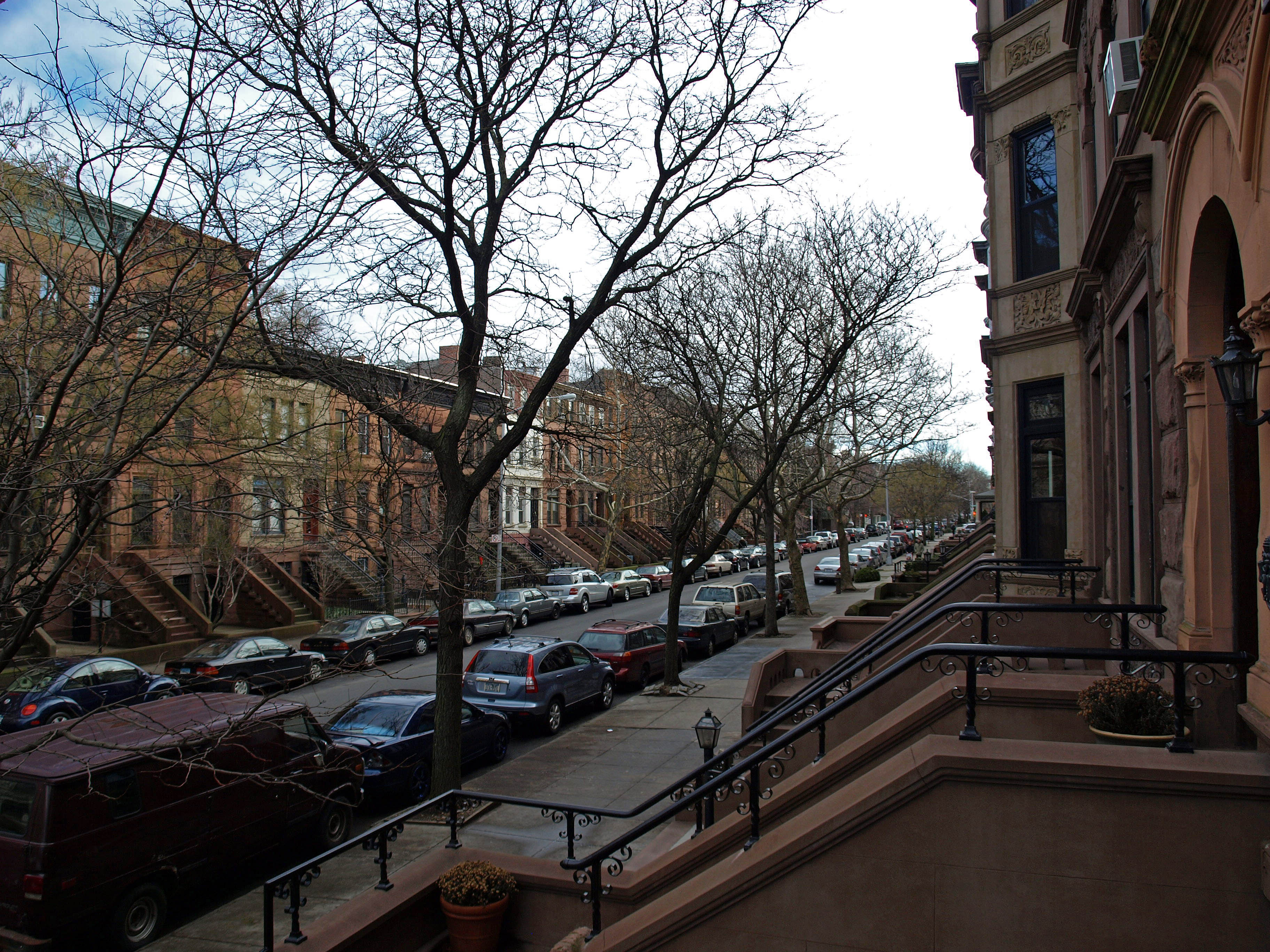 Park Place between Vanderbilt and Underhill Avenues in Prospect Heights, New York